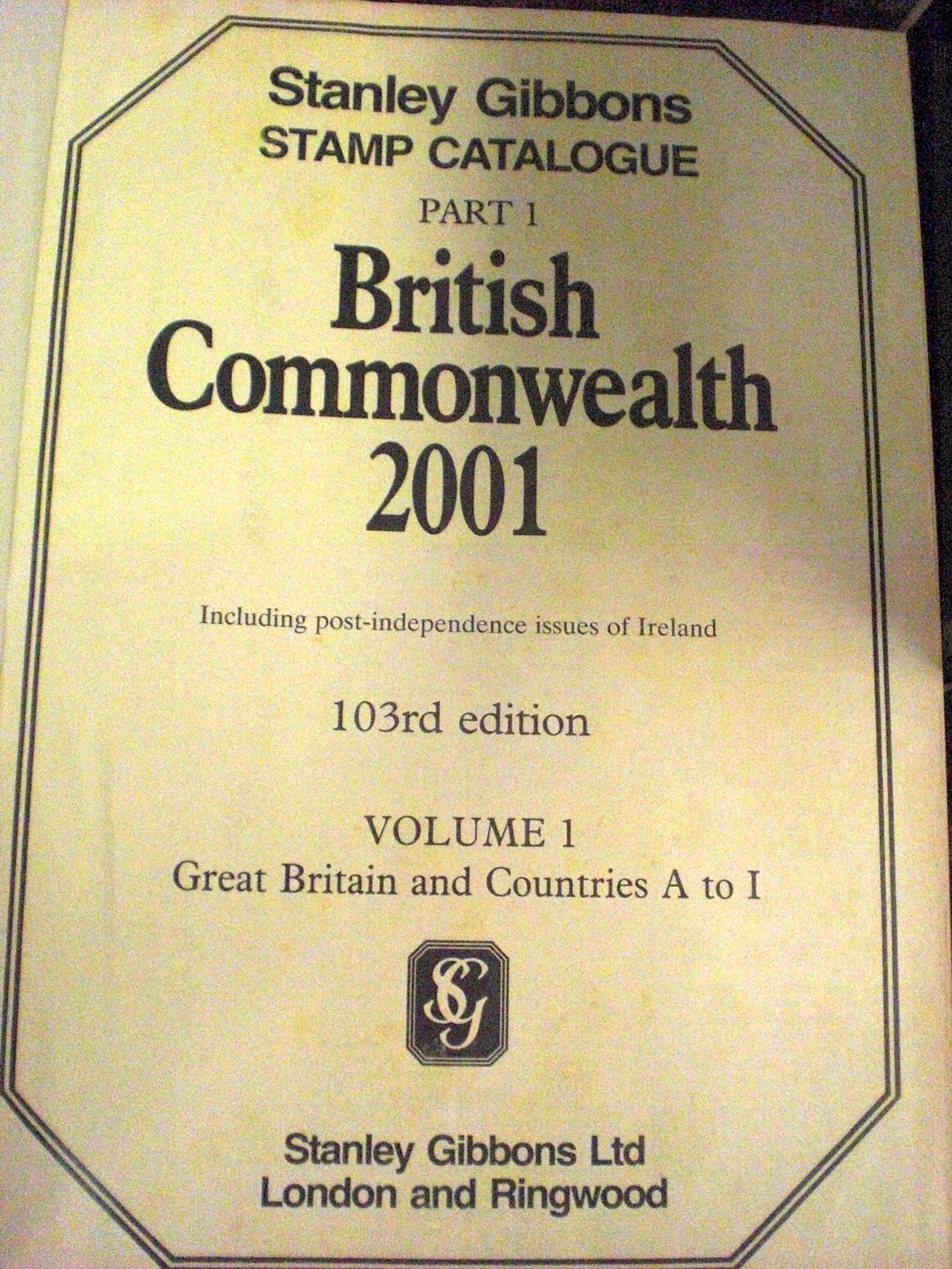 Title page of the book: Stanley Gibbons Stamp Catalogue. Part 1. British Commonwealth 2001. Including post-independence issues of Ireland: In 2 Vols. 103rd edn. London and Ringwood: Stanley Gibbons Limited, 2000. Vol. 1: Great Britain and Countries A to I. 960 p. ISBN 0852594933.